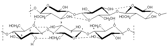 celulosa